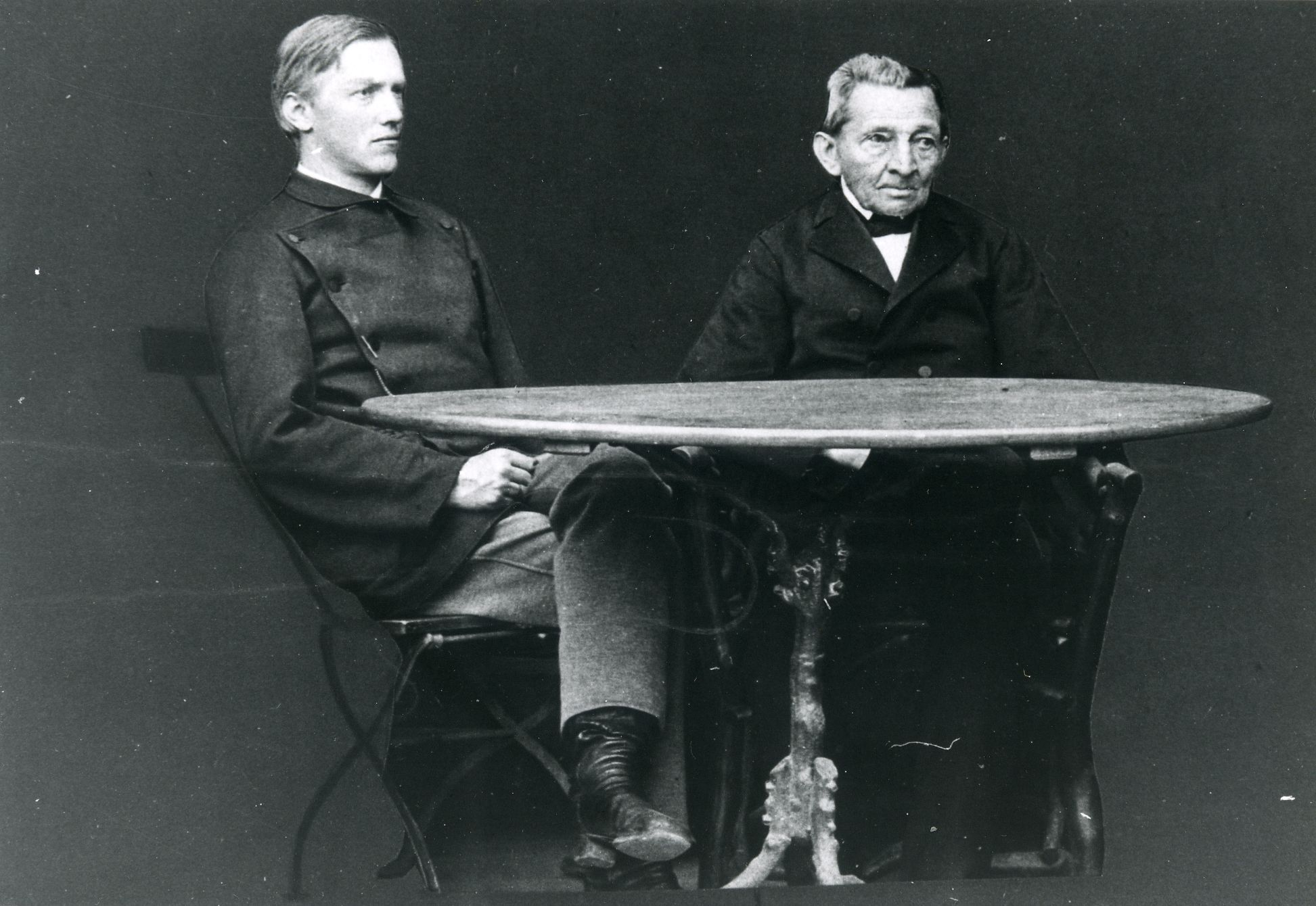 Ulrich von Wilamowitz-Moellendorff (left; 1848–1931) and Hermann Sauppe (1809–1893), classical scholars and professors in Göttingen 1883 to 1897 and 1856 to 1893 respectively.